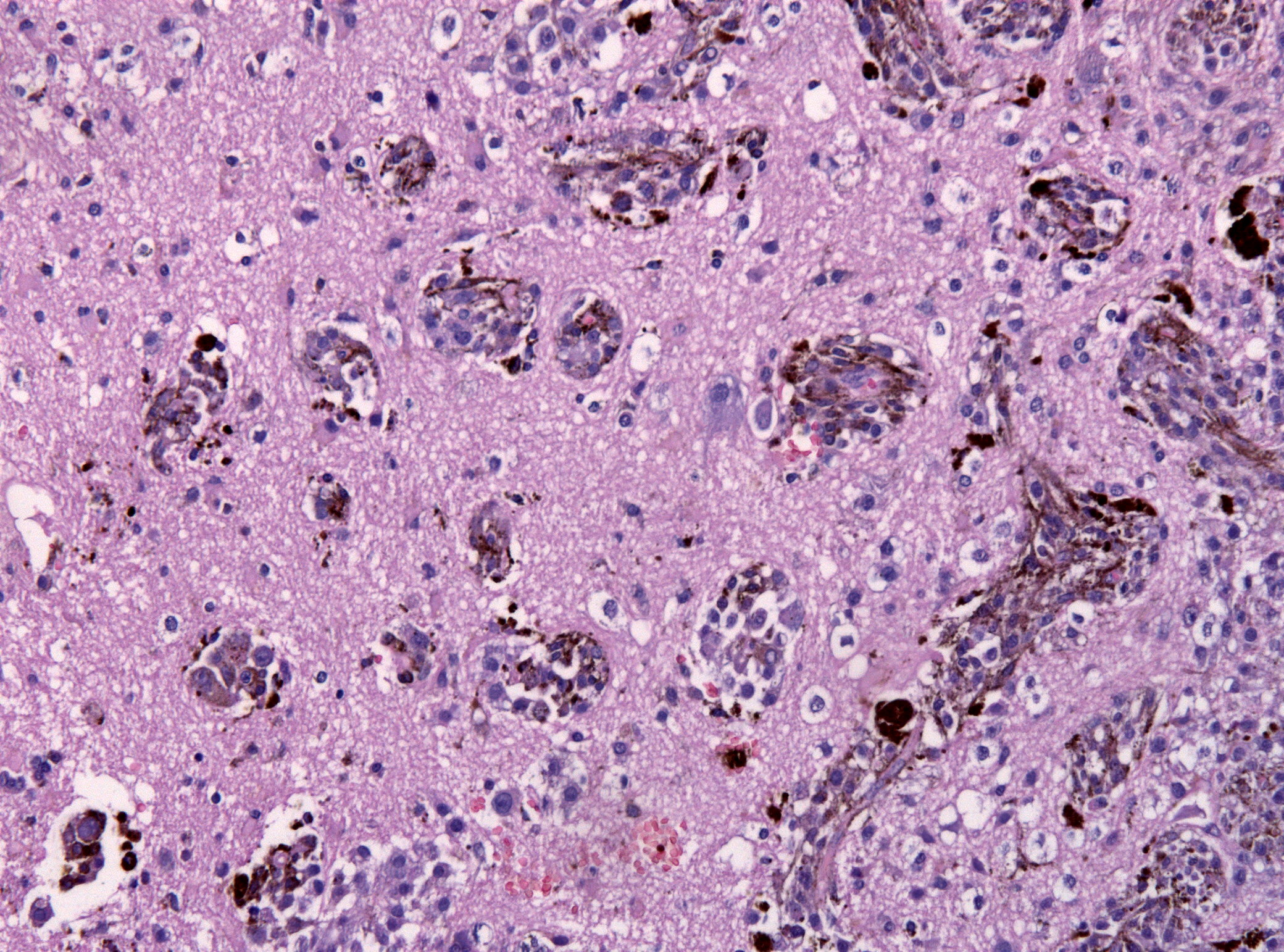 Biopsy specimen at the edge of a melanoma brain metastasis showing extensive infiltration of melanotic cells into the adjacent CNS structures (HE stain, x100 mag.)